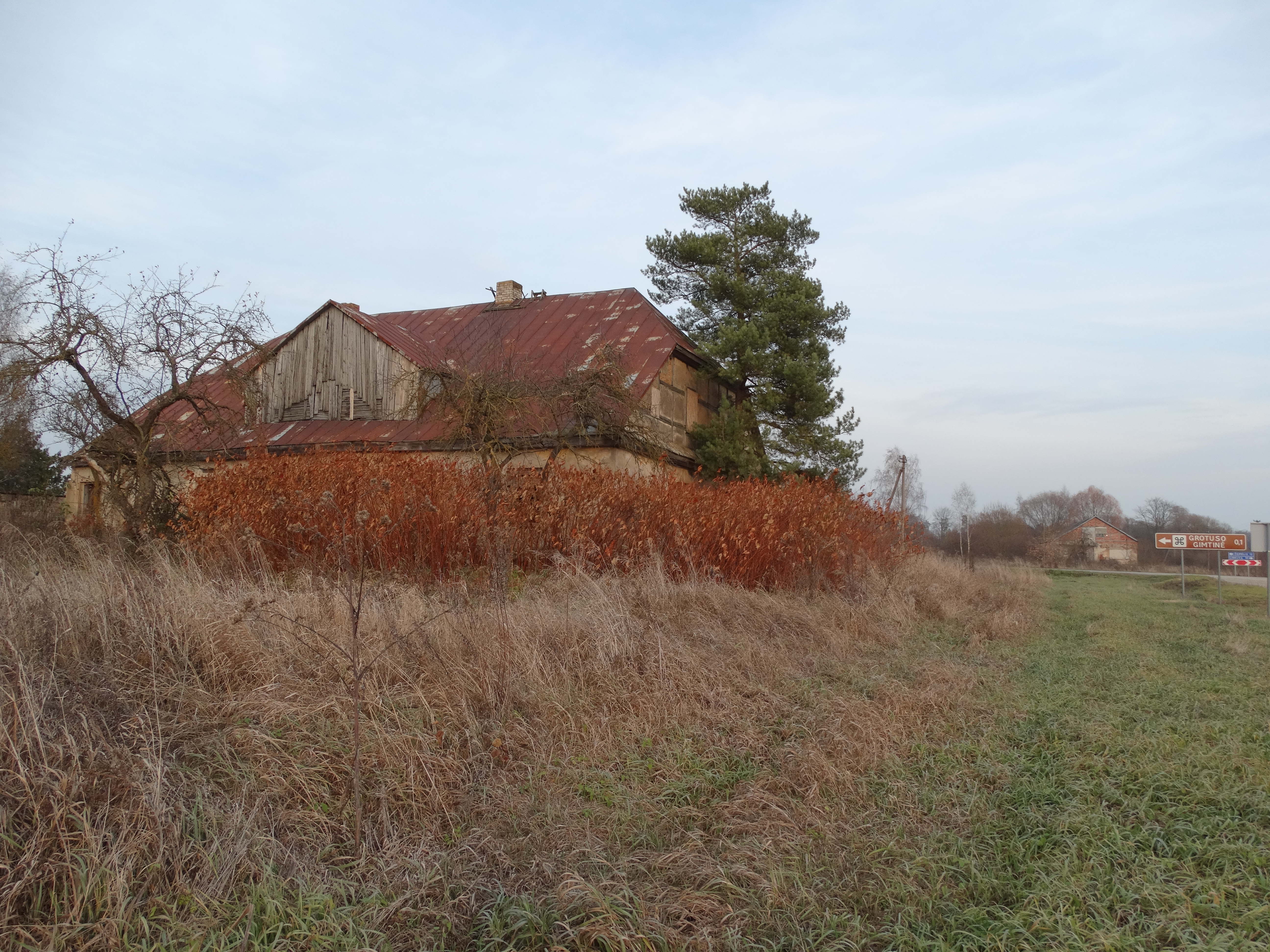 Gedučiai manor, Pakruojis district, Lithuania